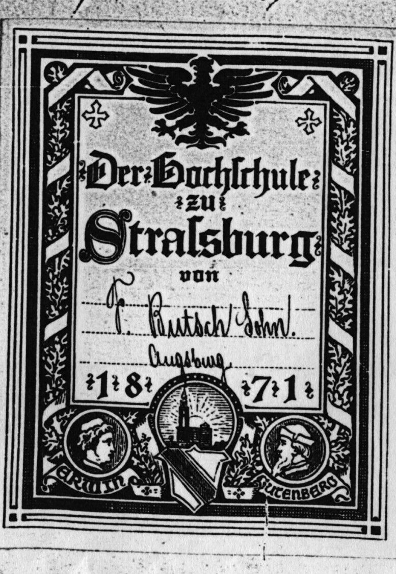 Ex libris of the University Library of Strasbourg in Alsace (France), 1871